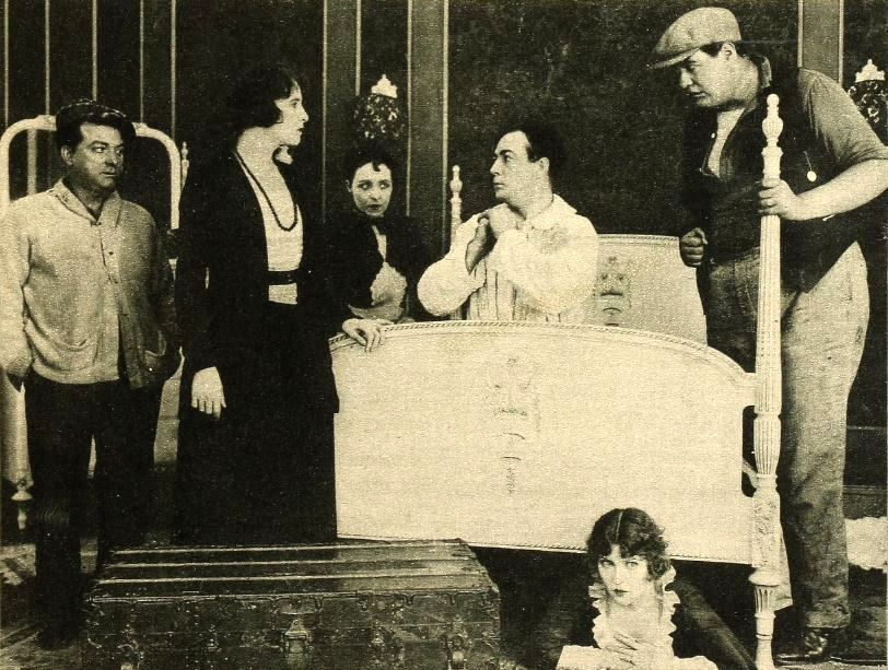 Still from the American silent film Fair and Warmer (1919) with (from left) an uncredited actor, Christine Mayo, Effie Conley as the maid, Eugene Pallette in bed, May Allison under the bed, and an uncredited actor, from page 61 of the November 1919 Shadowland. "Blanny's (Allison's) head protruded like a turtle from its shell just below the footboard of the bed."